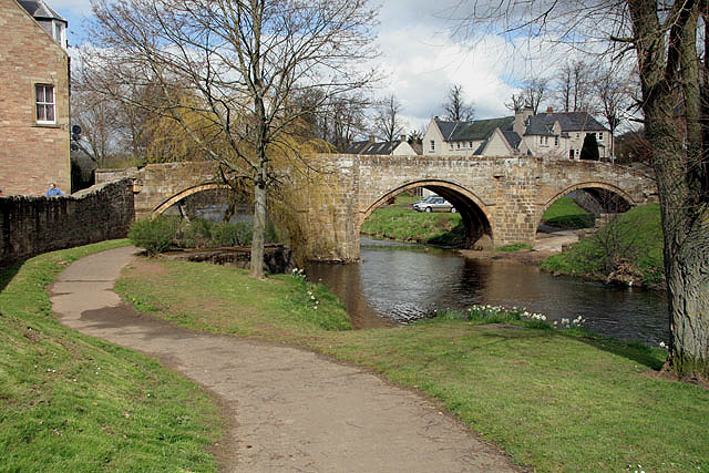 The Canongate Bridge in Jedburgh A 16th century narrow bridge over the Jed Water, now only used by pedestrians, and at one time the only main access bridge into the town.